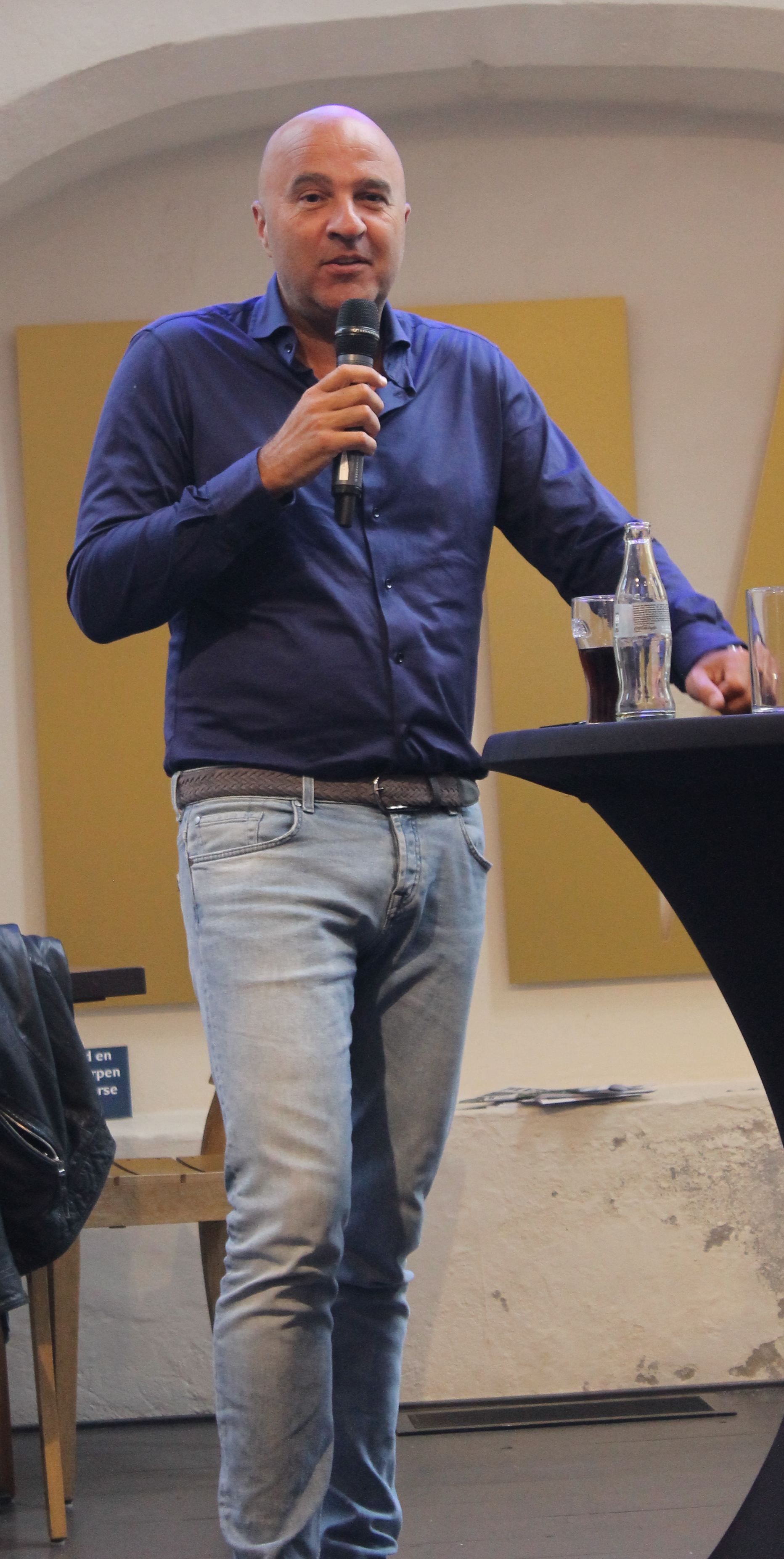 Dutch journalist and presentator John van den Heuvel in Zwolle 2016